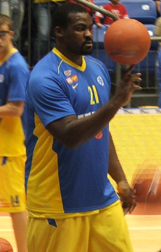 Maccabi Tel Aviv VS. Barak Netanya 31/10/11